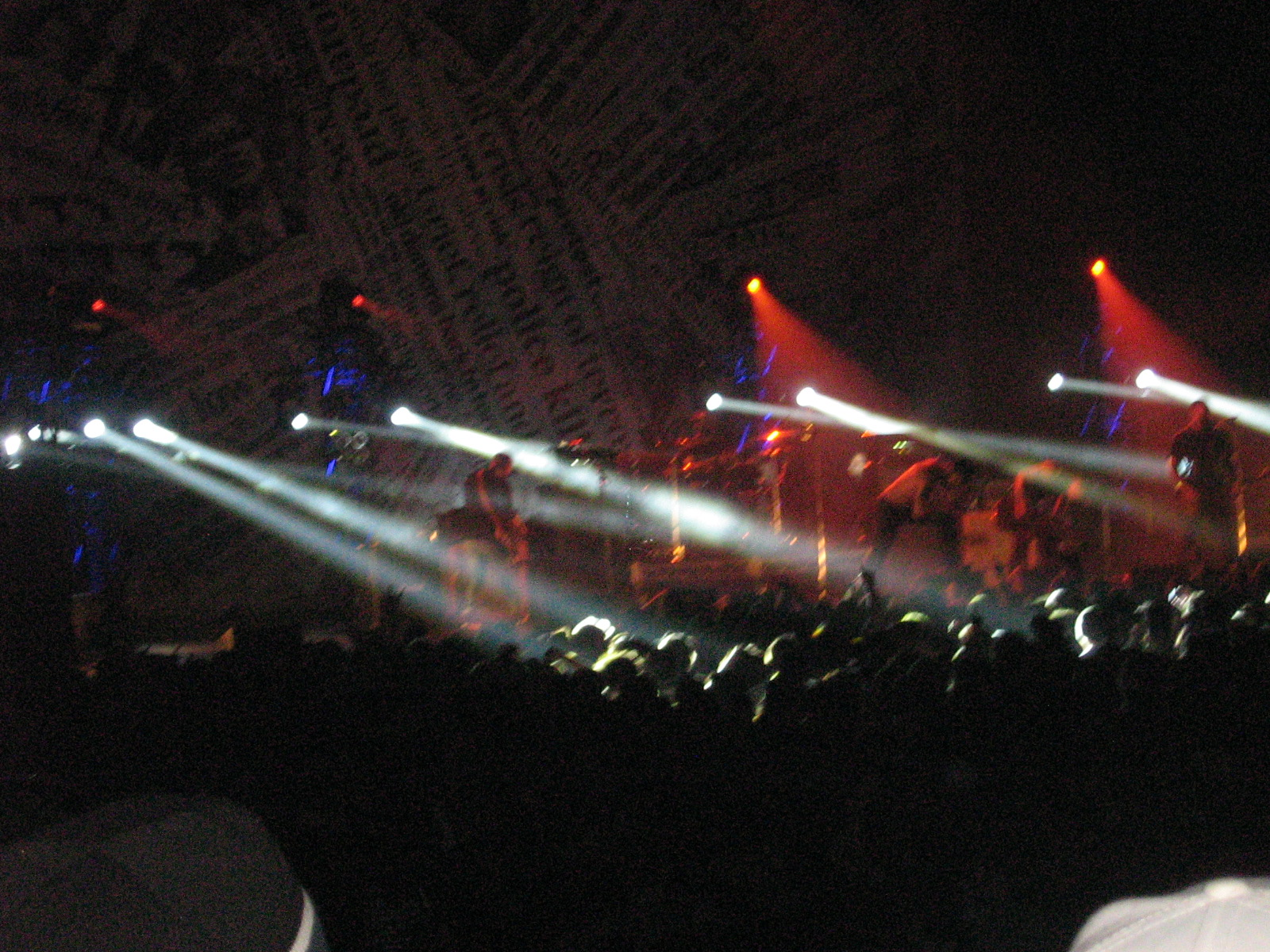 Alexisonfire plays in Vancouver December 17th 2012